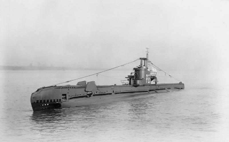 British S class submarine HMSM STRATAGEM underway on the River Mersey.